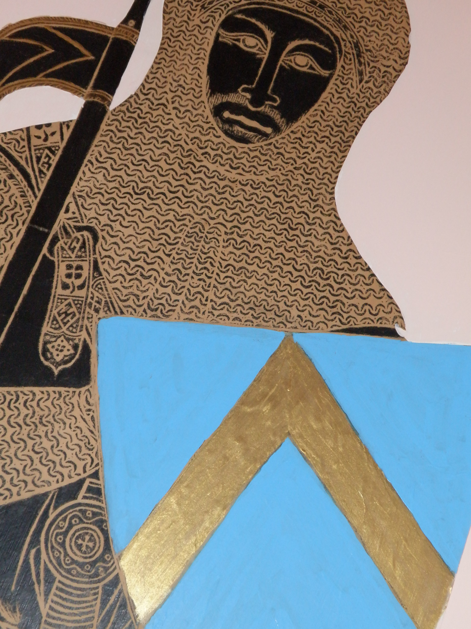 Sir John D'Aubernoun died in 1277. This, life sized, brass is the oldest surviving memorial brass in the country. I did the rubbing at the little church of St Mary, Stoke D'Abernon, Surrey on Tuesday 30th October 1973, and paid £2 for the privilege. He has hung on the stairs for the last 36 years, and apart from losing one elbow has worn very well indeed. I have just re-painted and gilded his shield and he looks nearly good as new. The shield is of precious blue enamel from 1277, and I was particularly instructed not to rub on it. I was most careful not to!